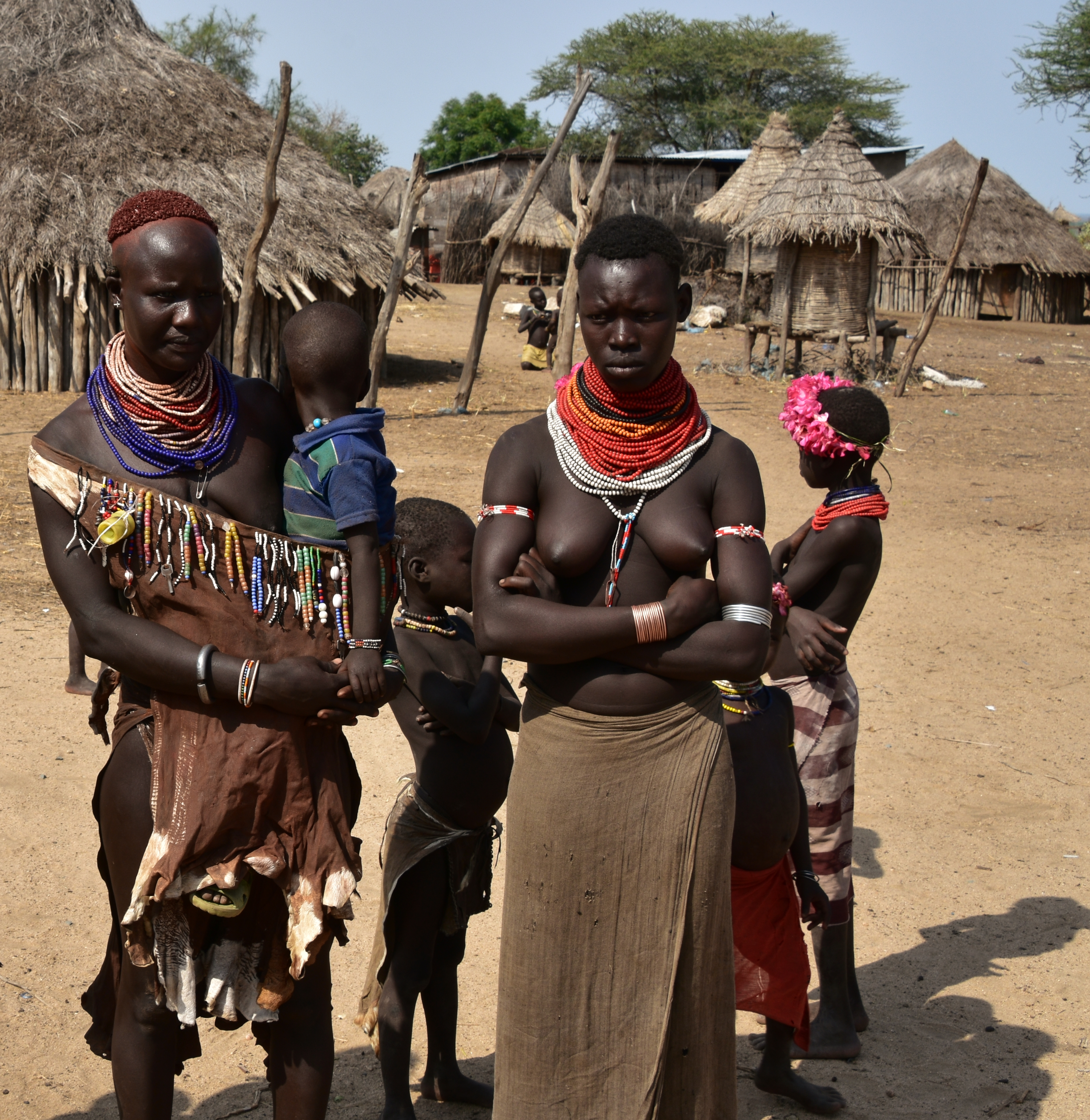 Karo women (6) Ethiopie, fillette Karos